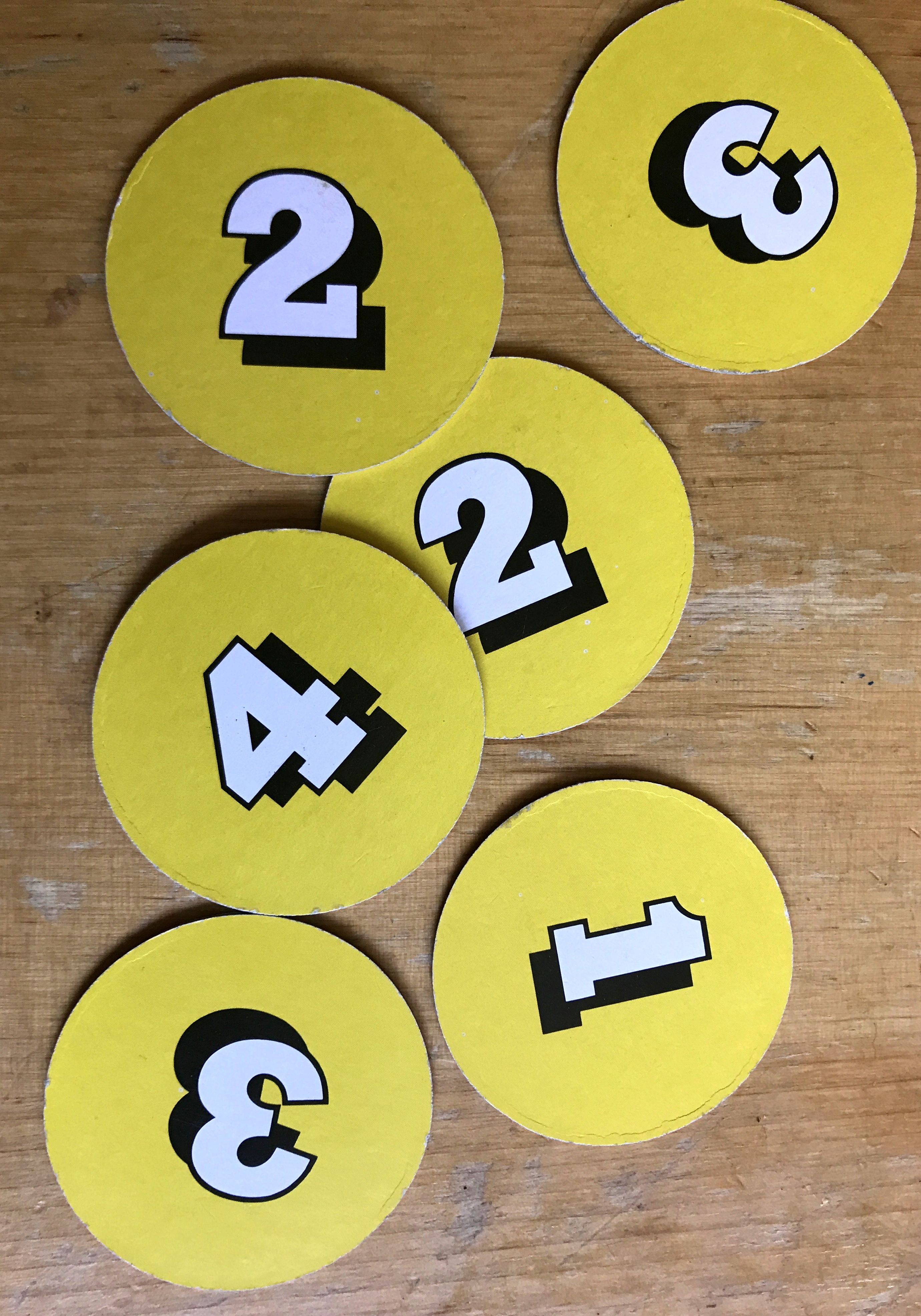 game material of "Die Maulwurf-Company" ("Mole in the Hole")